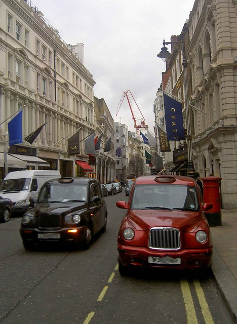 New Bond Street London Luxury goods abound all around.